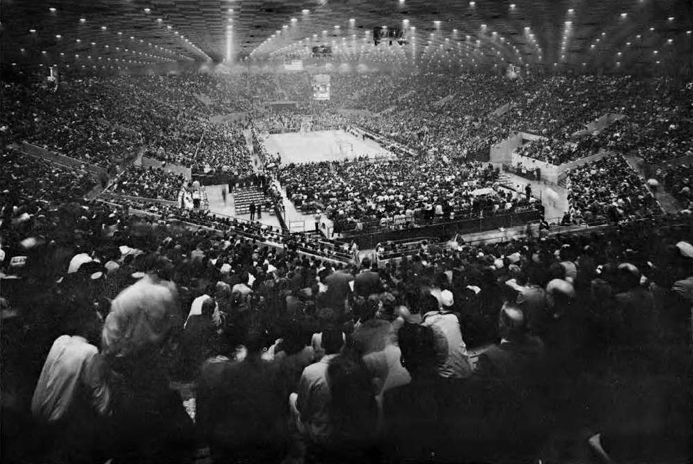 An interior photo of Freedom Hall in Louisville, Kentucky that appeared in the 1963 NCAA Basketball Championship program